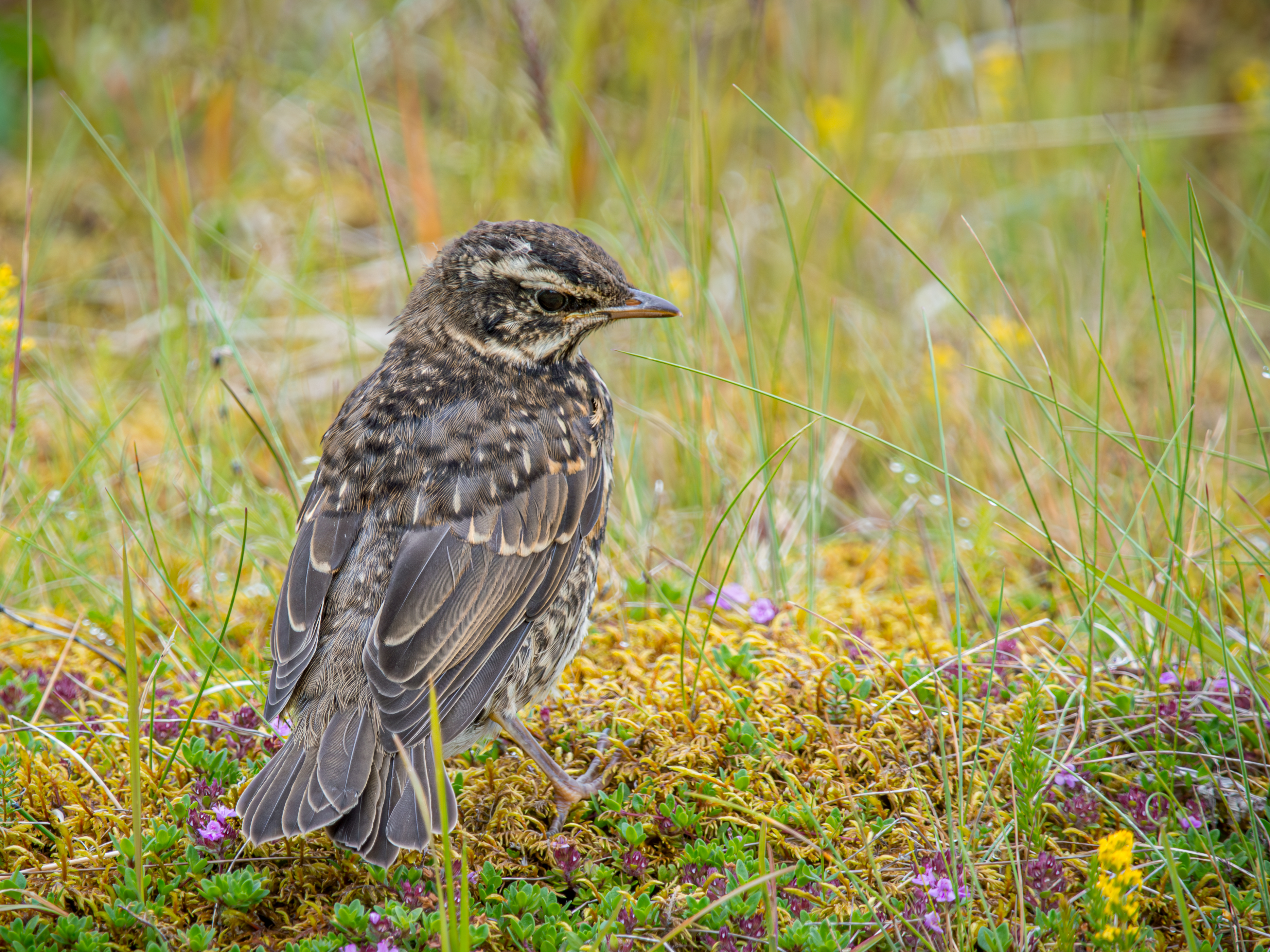 Redwing on Iceland